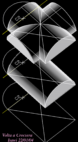 A groin vault schema as the intersection of two half-cylinders (barrel vaults) lying on the same plane.